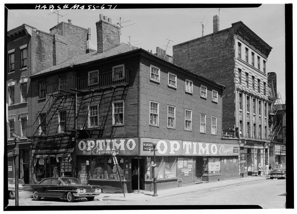 91 Green Street (House), corner of Leverett St., Boston, 1959. The car in the forefront is a 1959 Oldsmobile. From the Historic American Buildings Survey, Library of Congress, Prints and Photograph Division, Washington, D.C. 20540 USA. Survey number HABS MA-671.